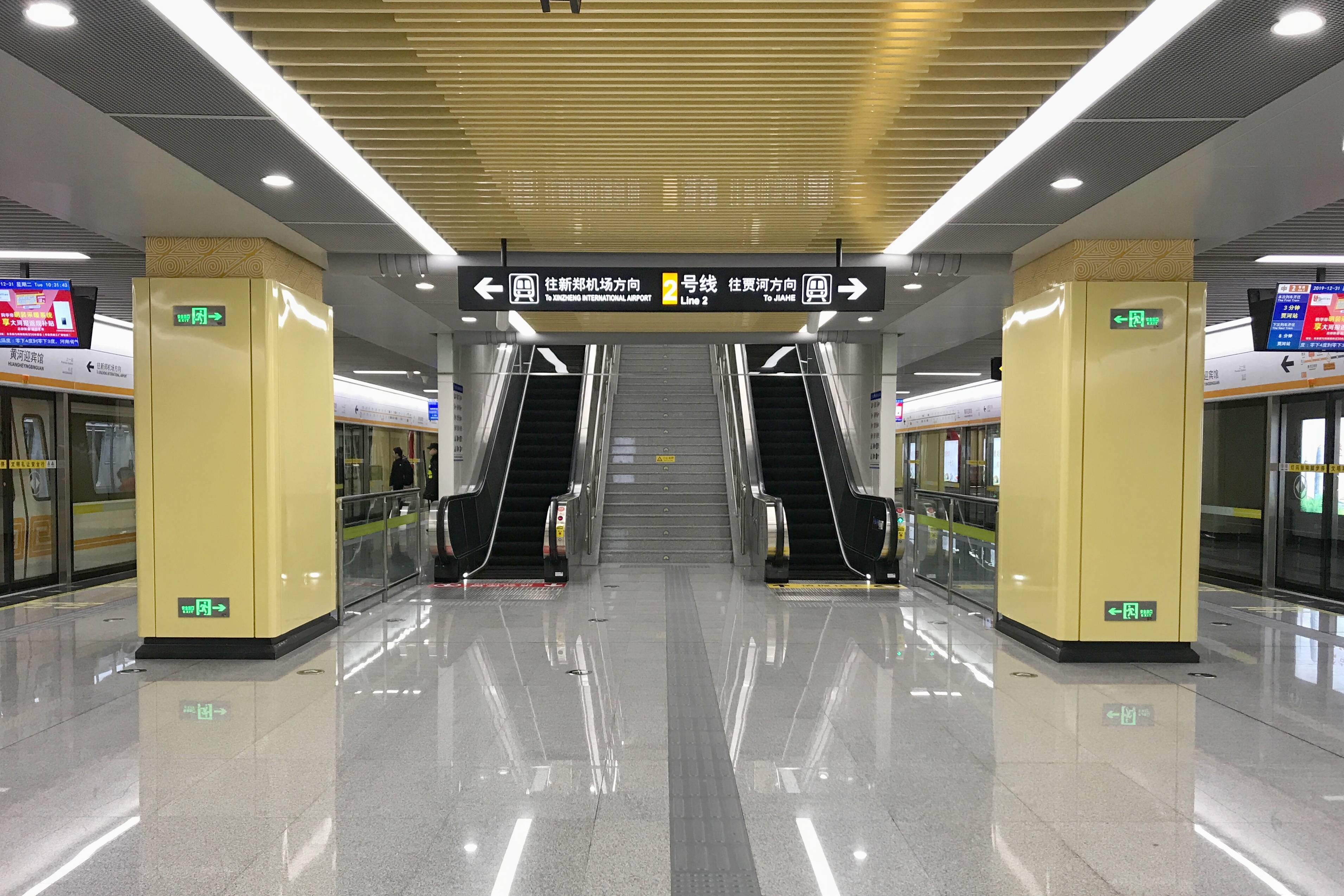 Platform of Huangheyingbinguan Station